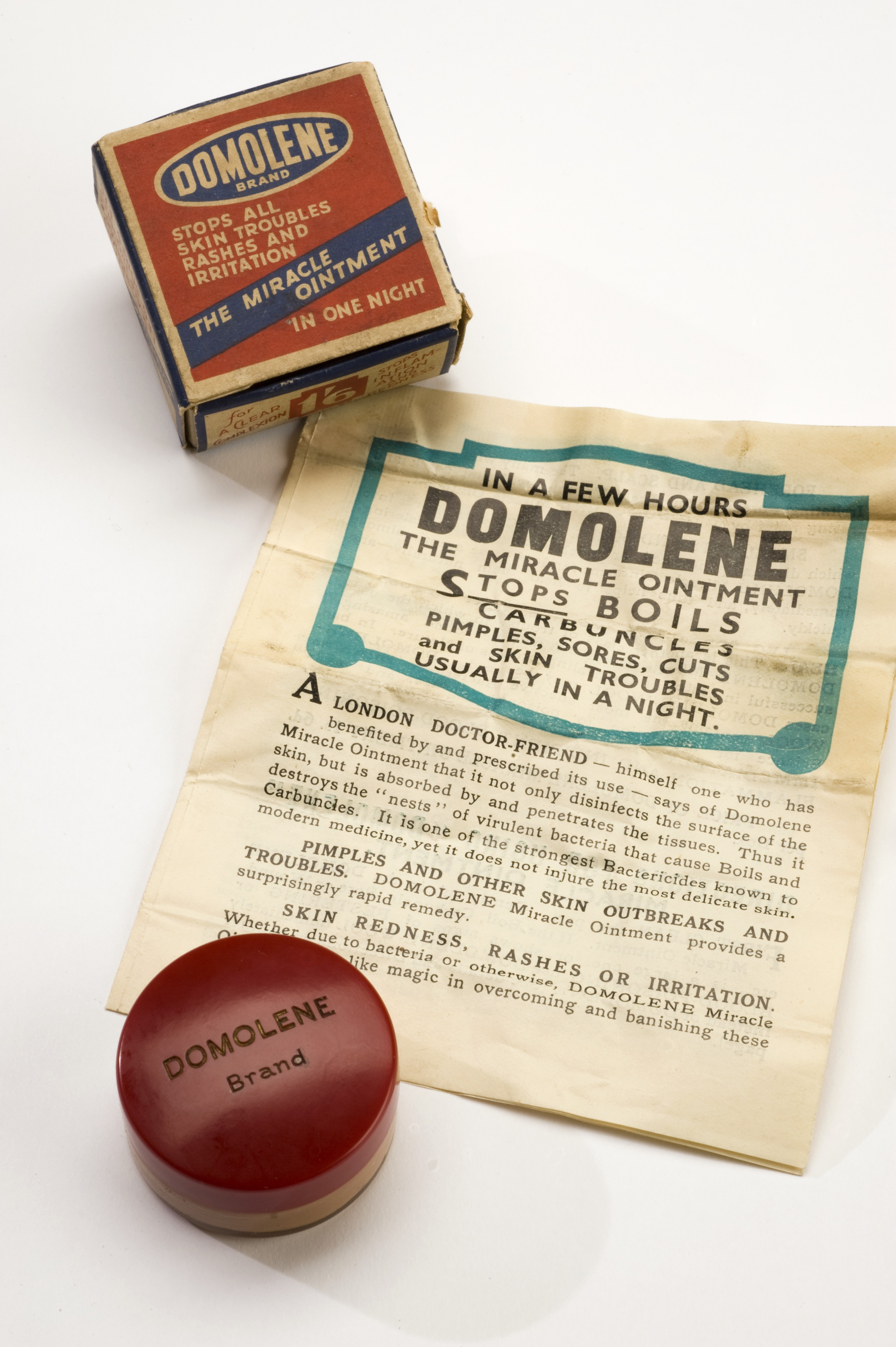 The advertisement on the packaging of this product promises that the ‘miracle ointment’ will cure spots, pimples, scratches, skin irritations and boils on the skin in just one night. The manufacturer also promised that the cream would save the user from blood poisoning. The lurid pink ointment could be purchased from chemists or ordered directly from the makers. Domolene is one of the many trade names for products that contain hydrocortisone – a steroid hormone which is naturally produced in the body. First introduced in the mid-twentieth century, it is used to treat a number of medical conditions and is widely used in skin care products. maker: Domo Remedies Limited Place made: London, Greater London, England, United Kingdom Wellcome Images Keywords: acne; unguent; blood poisoning